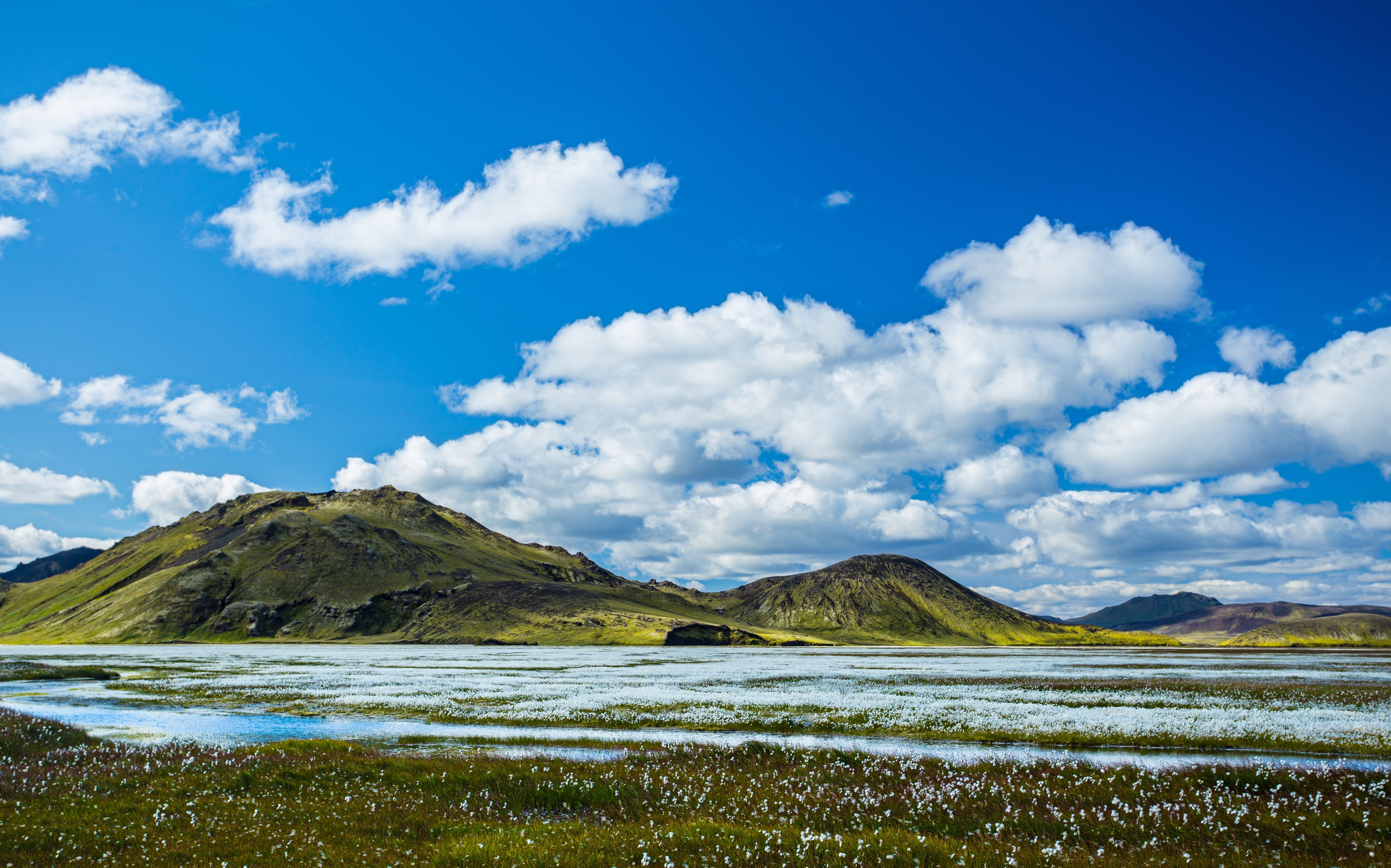 Landmannalaugar Iceland Fjallabak Nature Reserve